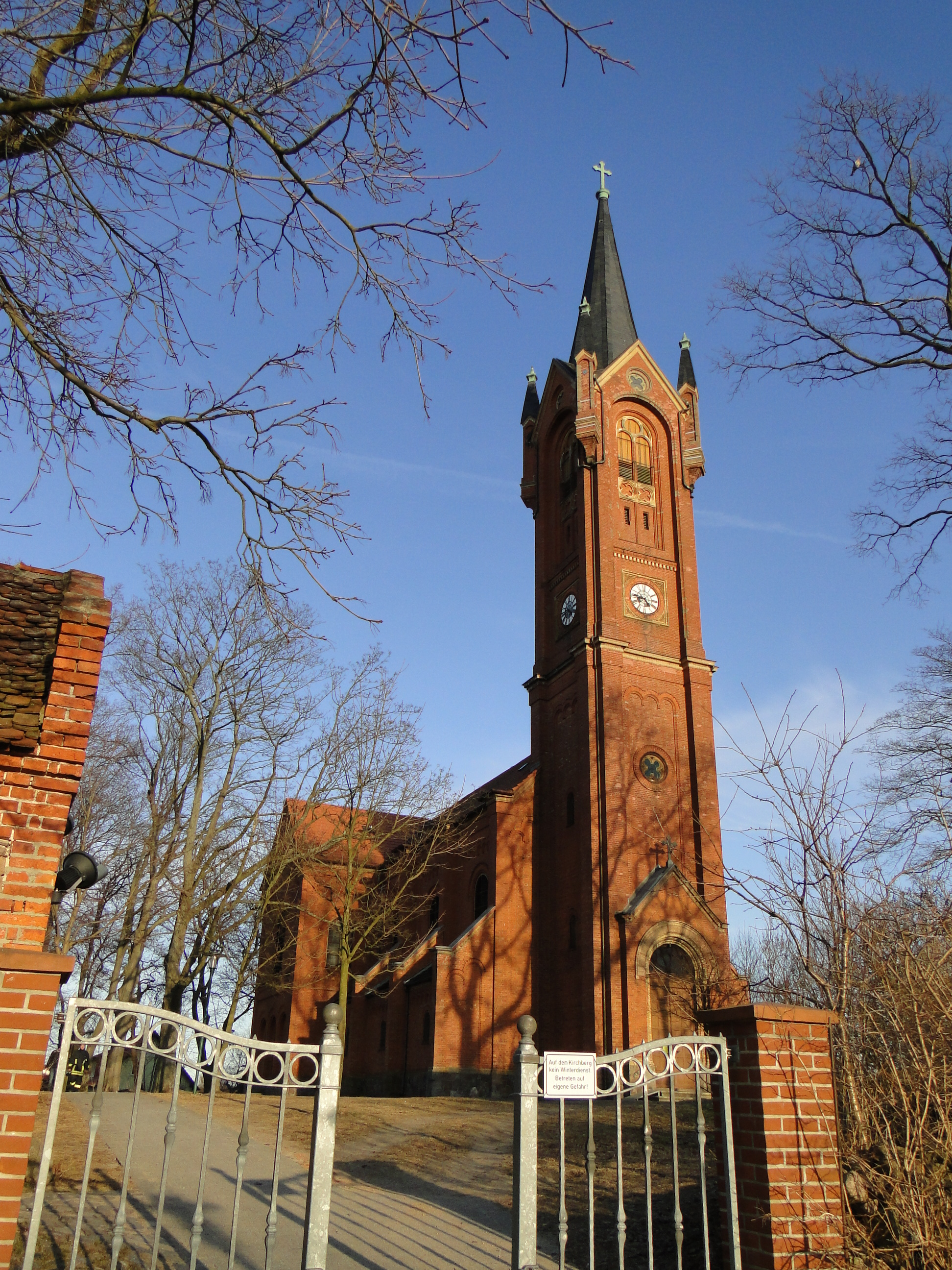 Church in Feldberg, district Mecklenburg-Strelitz, Mecklenburg-Vorpommern, Germany